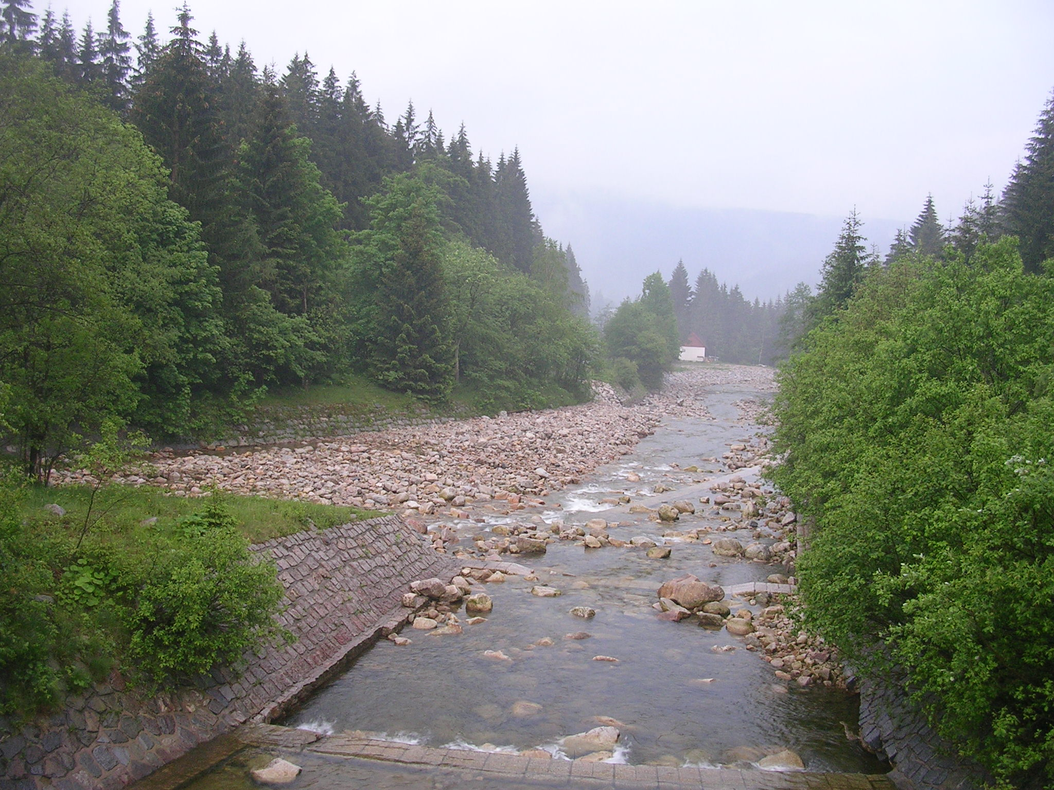 Giant Mountains. Confluence of Elbe and White Elbe (from the left). Lua error: language code ' ' is invalid.